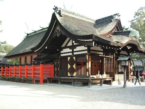 Main shrine at the Sumiyoshi shrine in Osaka